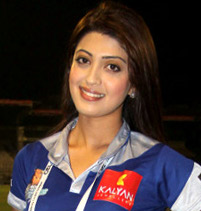 Pranitha at CCL 3's Chennai Rhinos Vs Karnataka Bulldozers match